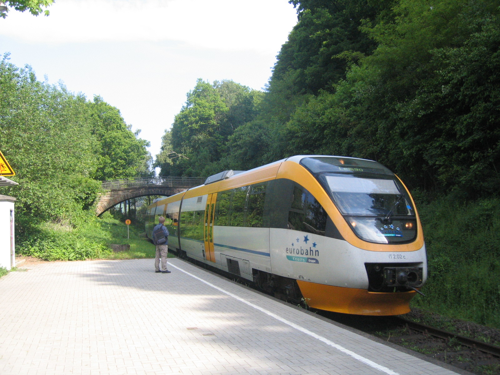 Train in Rödinghausen, District of Herford, North Rhine-Westphalia, Germany.